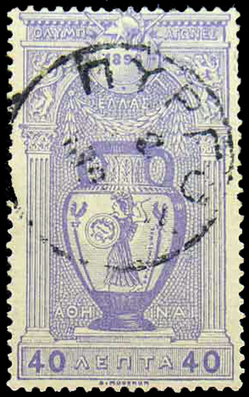 Stamp of Greece, The First Olympic Games, 1896, 40 l.